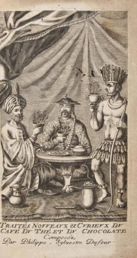 Frontispiece illustration for "New and curious treatises of coffee, tea and chocolate", Philippe Sylvestre Dufour, 1685. see also: title page for this text, File:Curiosity tea coffee chocolate title page.jpg